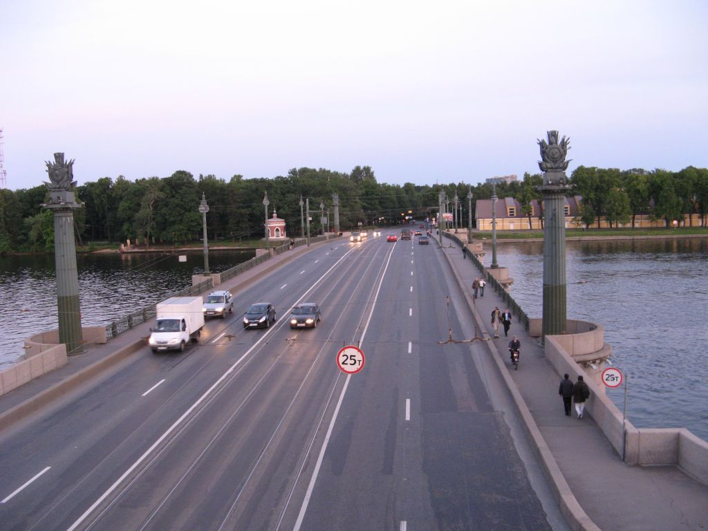 Ushakovsky bridge, Saint-Petersburg